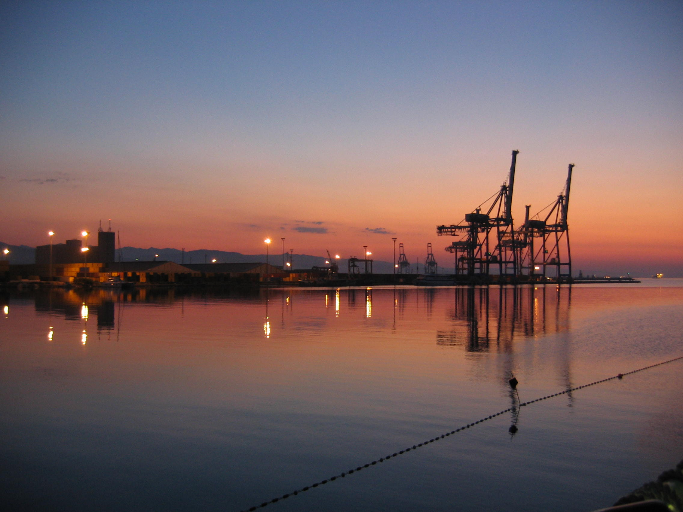 Limassol, Cyprus at night